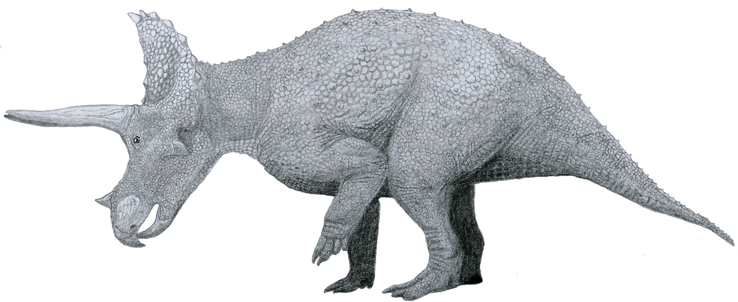 A subadult Triceratops horridus. Illustration by Tom Parker .